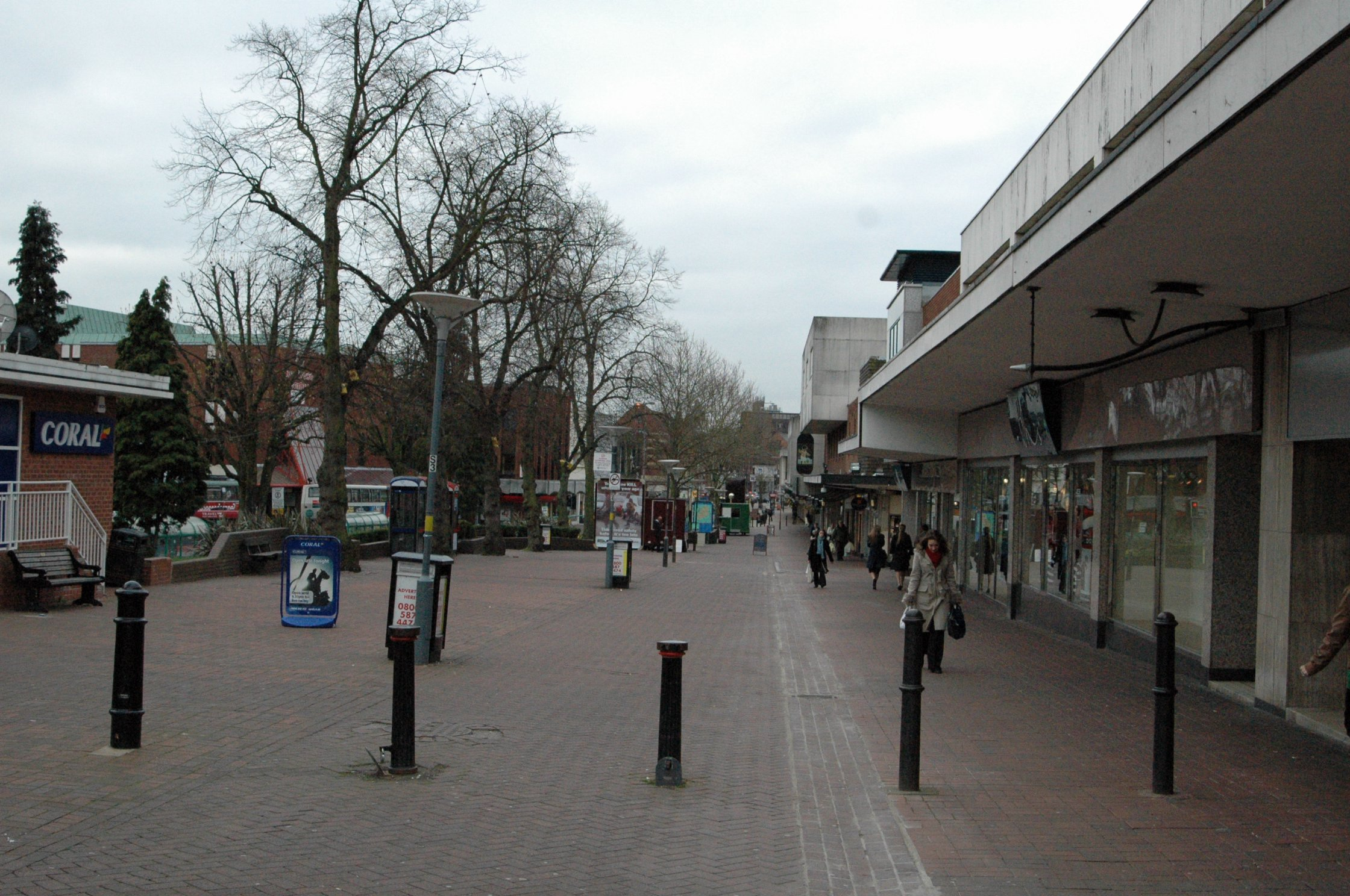 This is the main shopping area of Sutton Coldfield, Birmingham, England. To the right is the Gracechurch Shopping Centre. The title of the file is perhaps a little misleading as there are other towns which bear this name: Coldfield is the key word here.